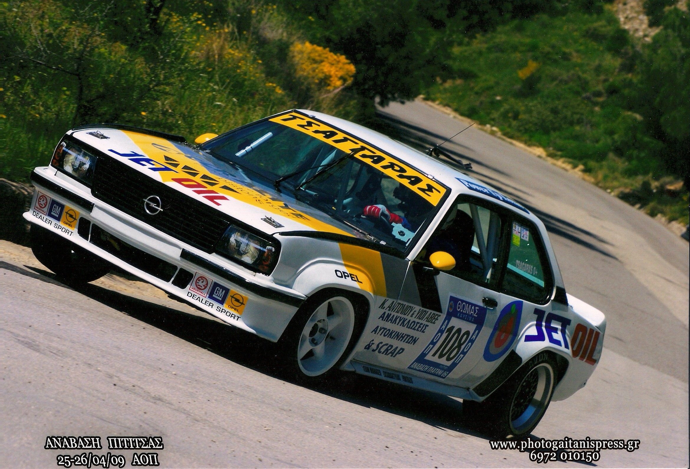 Ascona 400 a Historic Racing Car from Greece Anavasi Pititsas